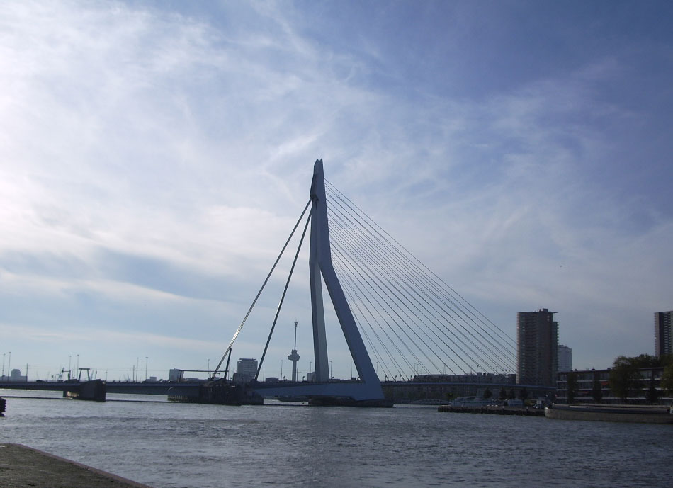 The Erasmus bridge in Rotterdam